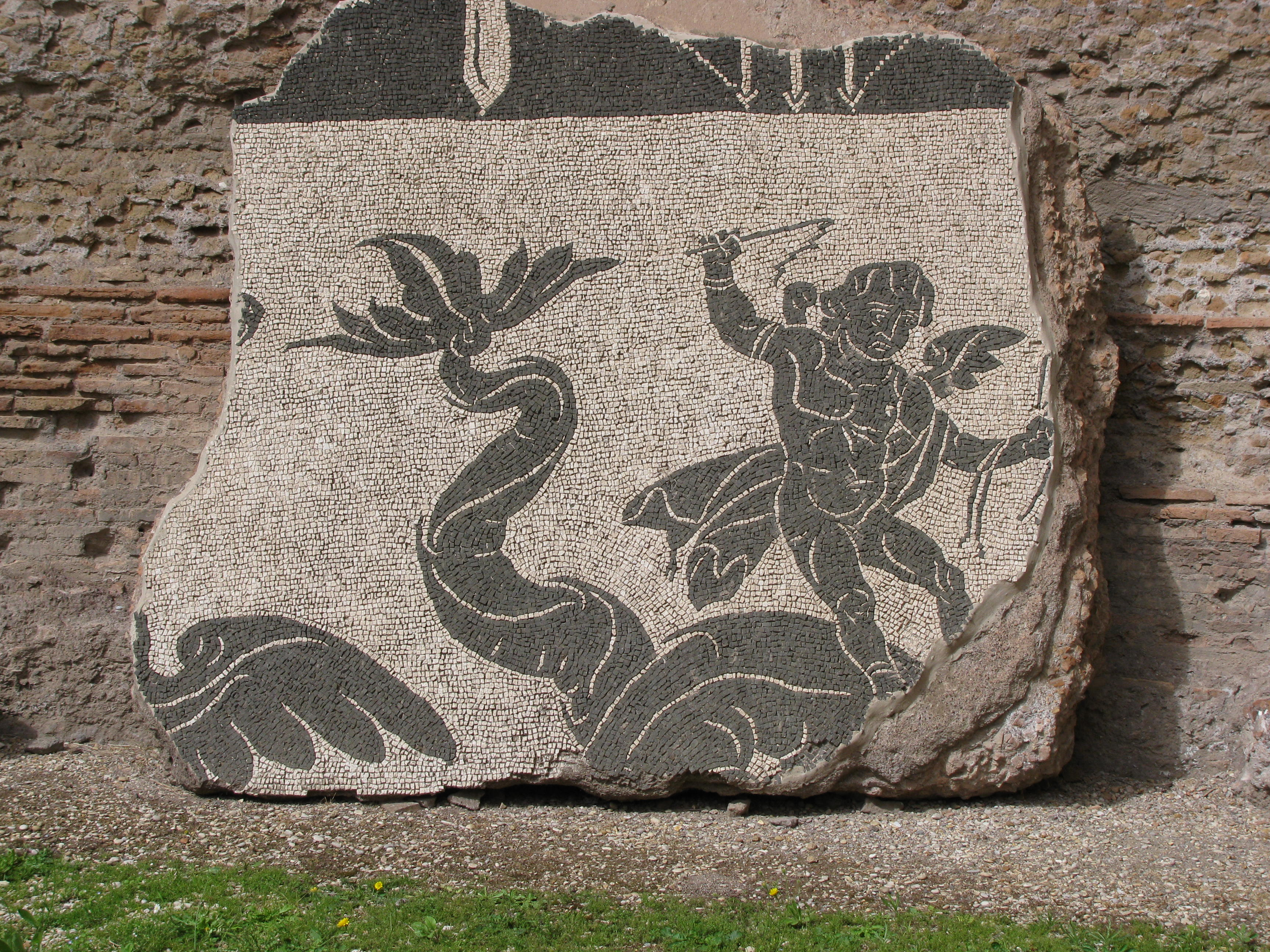 Caracalla baths